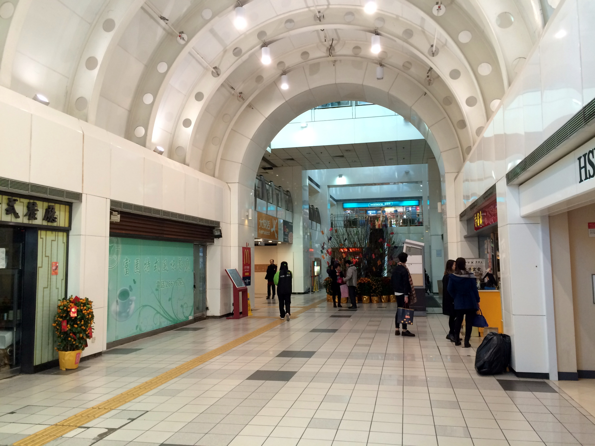 Fu Shin Shopping Centre